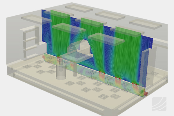 Ventilation system's design of a cleanroom configuration analyzed via a laminar steady state simulation with scalar quantity. This CFD analysis was performed with SimScale.